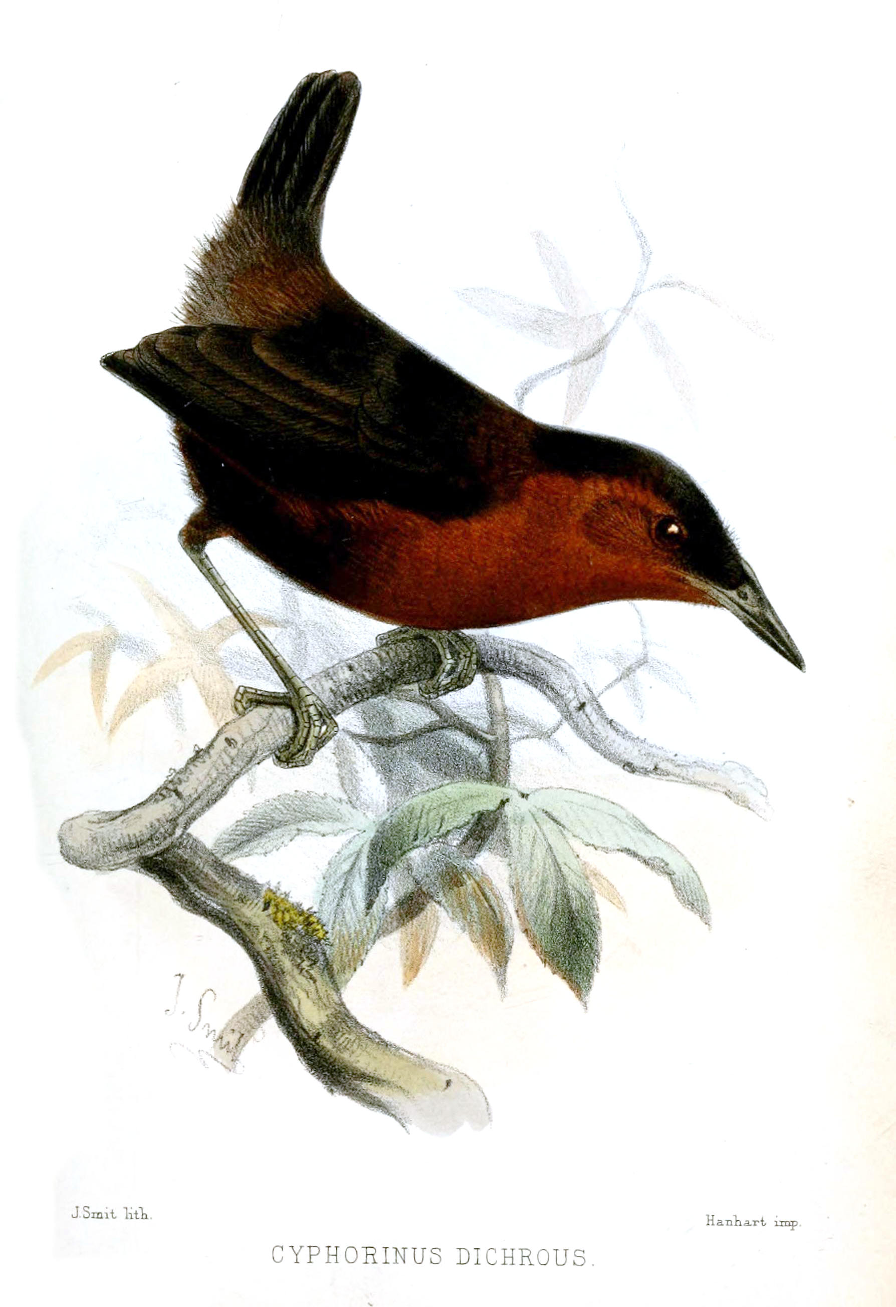 Cyphorhinus thoracicus dichrous = Thryothorus thoracicus